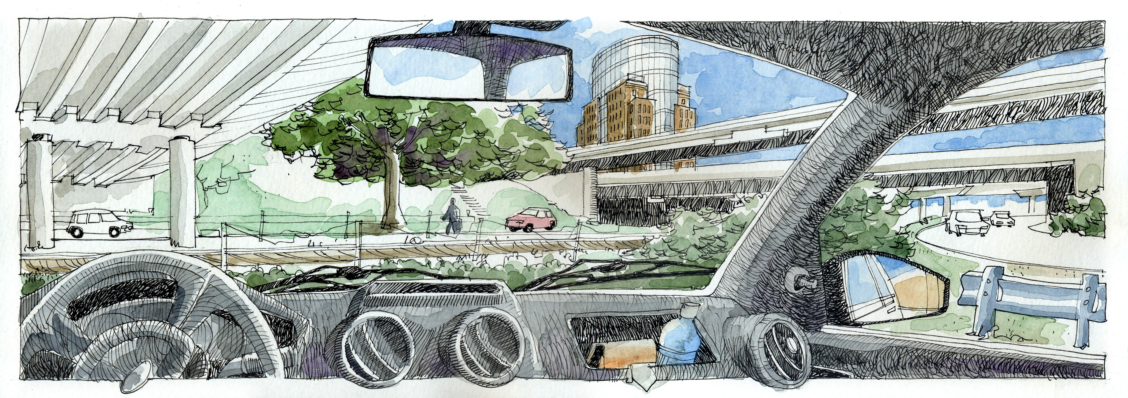 Highway cross at Panamericana and Avenida General Paz, Buenos Aires.